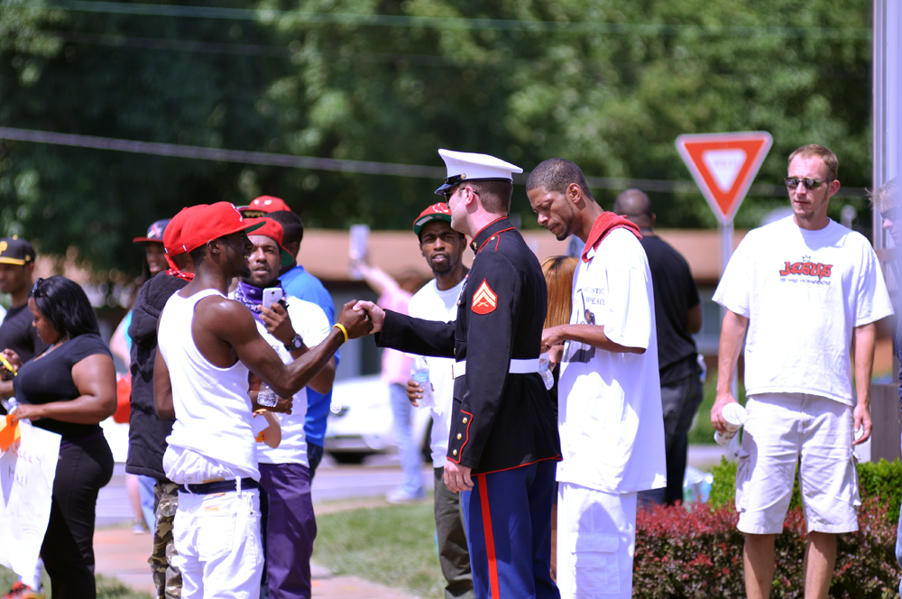 Marine in dress uniform shakes hands.